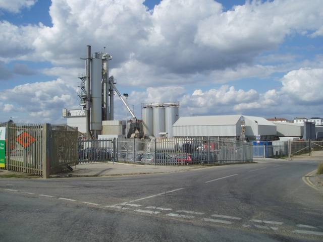 Asphalt Plant at Shoreham Harbour. This is adjacent to the harbour and is run by RMC.